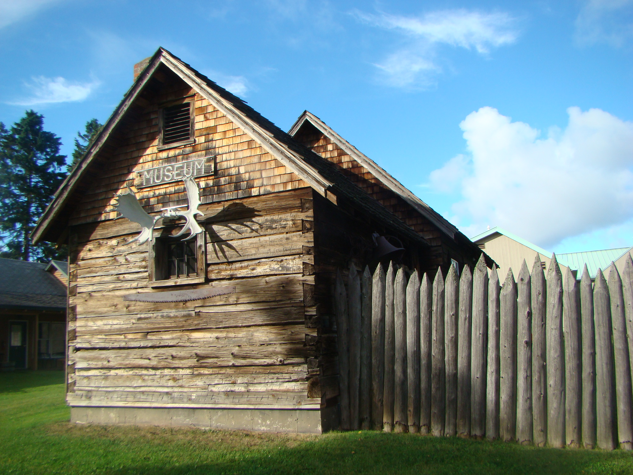 Photograph of the Madeline Island Museum